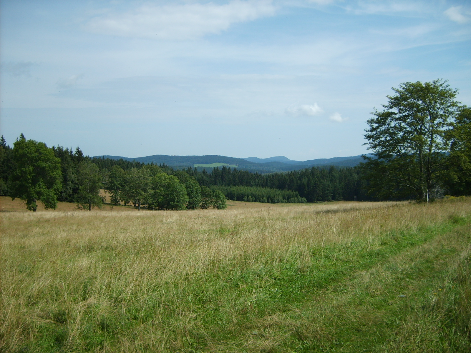 Novohradské hory from the way between Pohorská Ves and Tichá. Czech rep.